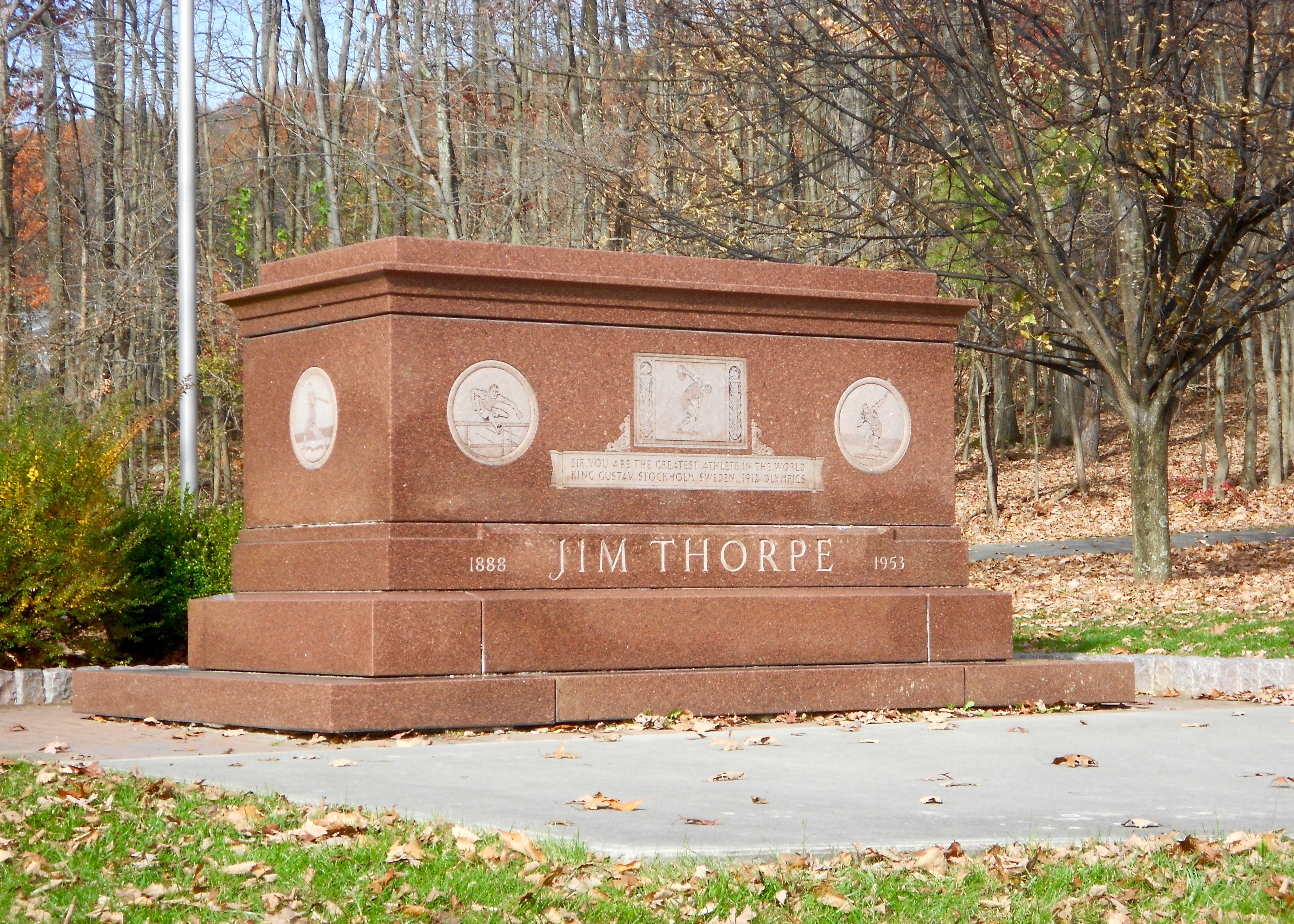 Jim Thorpe's grave in Jim Thorpe, Pennsylvania